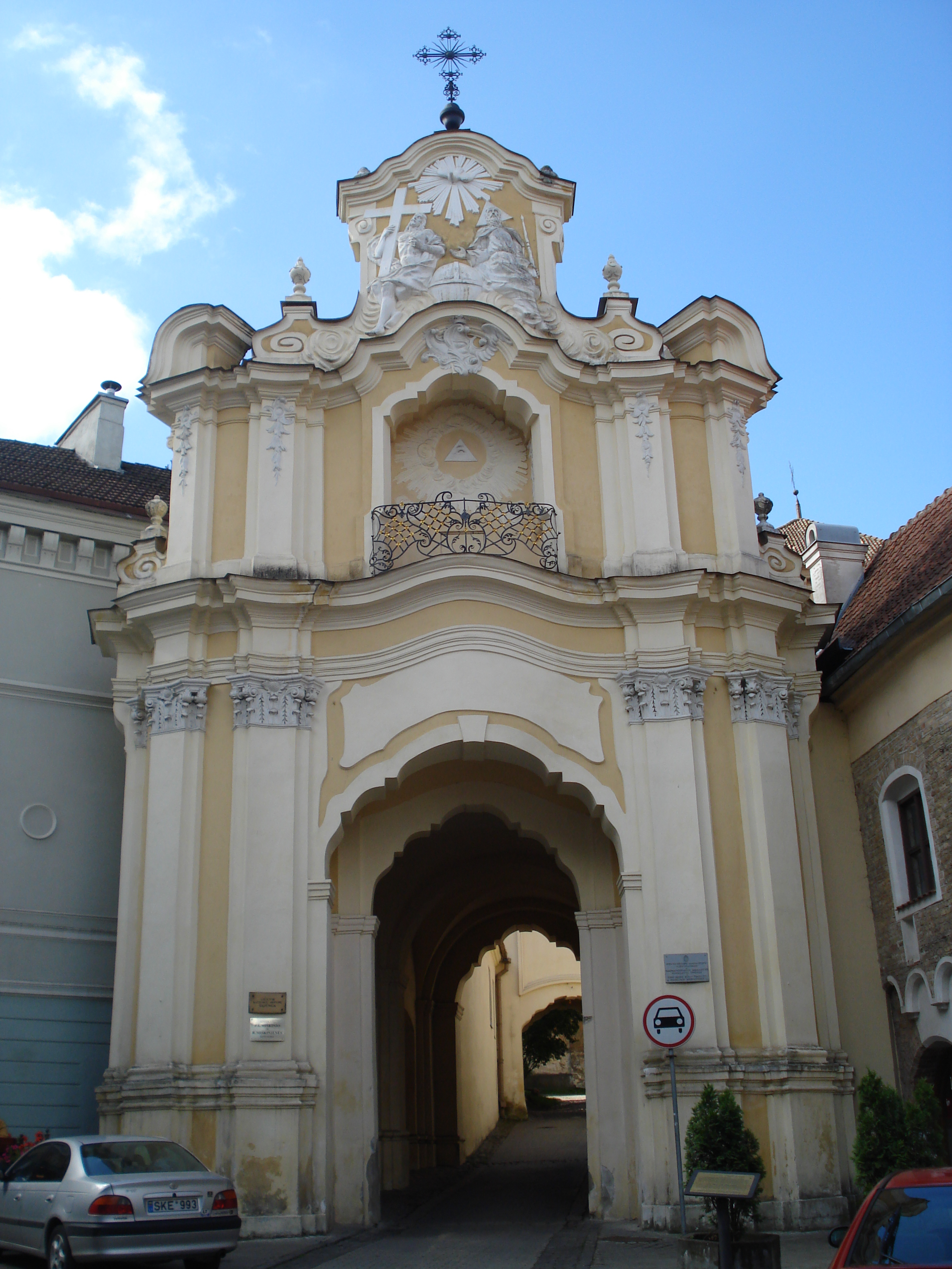 Baroque gate of the Basilian (Uniate) monastery of the Holy Trinity in Vilnius (Brama klasztoru Bazylianów w Wilnie)